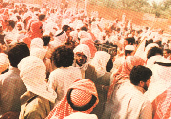 Demonstrators in Safwa City on on ninth of Muharram (29 November 1979) during the November 1979 unrest in Eastern Province, Saudi Arabia.